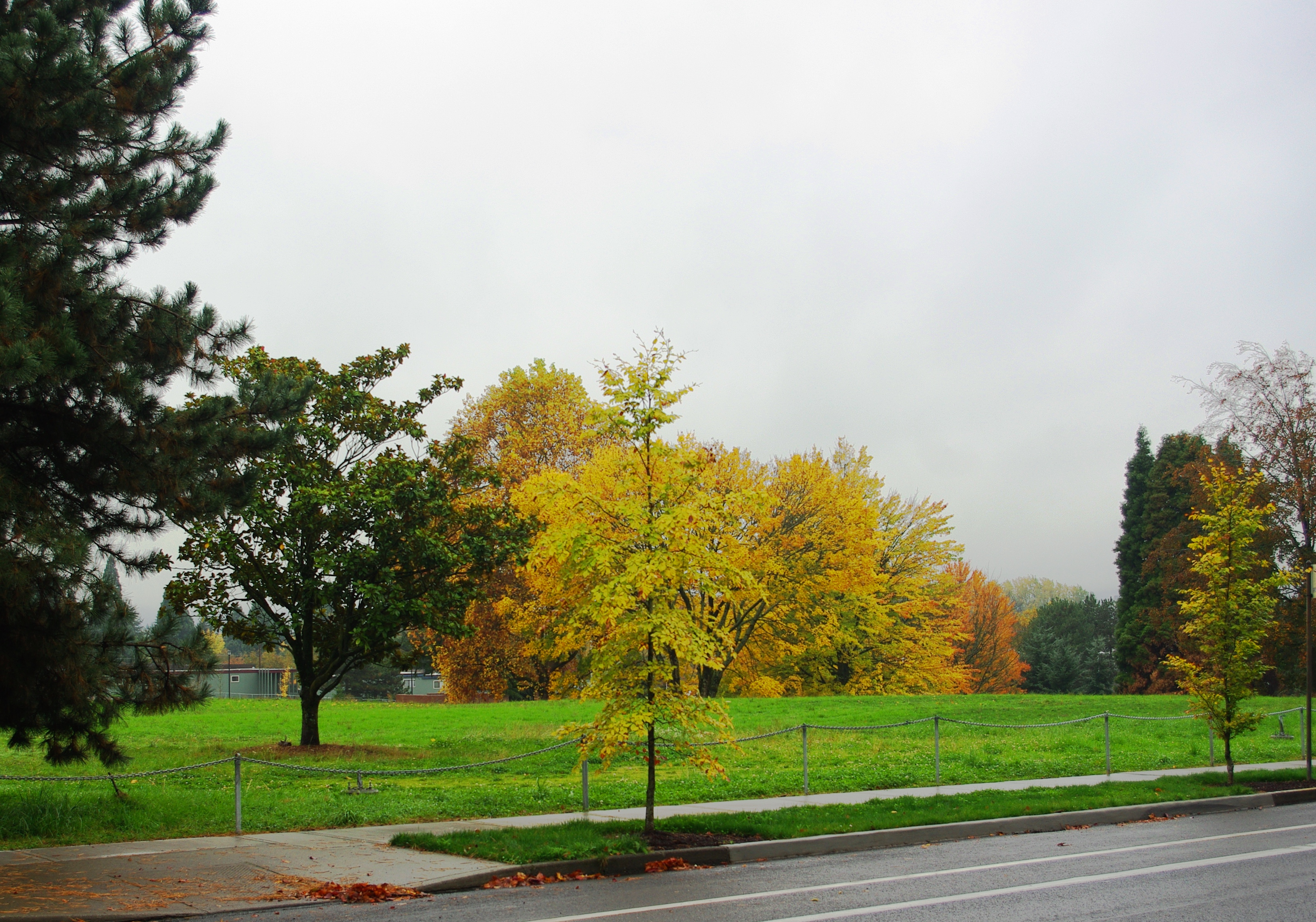 Former grounds of the defunct Eastmoreland Hospital in Portland, Oregon. Now Reed College land and buildings.